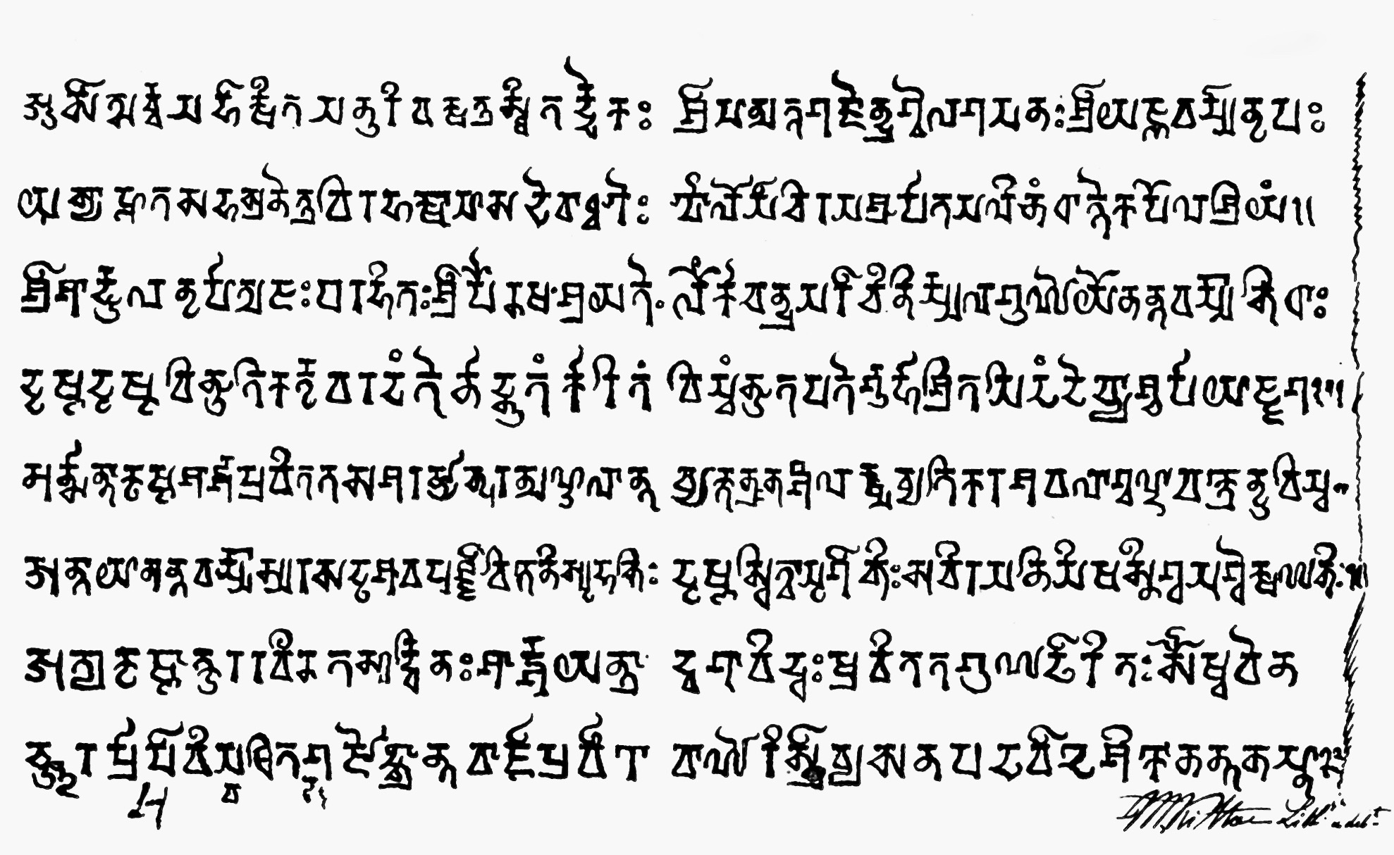 This is a Sanskrit inscription in Gupta script (parent of Devanagari) attributed to king Anantavarman. It was first published by Wilkins in 1790, eye-copied by Kittoe (above copy), transliterated by Rajendralal Mitra, translated with interpolations and interpretations by Fleet, restudied by Kielhorn in 1891. This is a Shaivism inscription based on the content (see Fleet, 1888), and variously dated between 450 CE to late 6th-century. The caves themselves are dated to 3rd-century BCE, first used by the Ajivikas tradition monks, later by the Buddhist monks, and thereafter the Hindu monks. This is a photograph of sketches and inscriptions from a personal copy of an article published in 1847 by Markham Kittoe about the Barabar Caves in Bihar in the The Journal of the Asiatic Society of Bengal. This is found along with Kittoe's interpretation and explanation in Volume 16, pages 401-412 (note: Capt. Kittoe spelt it Burabur cave in Bahar). The original qualifies under wikimedia's PD-Art-100-70 guidelines. Any rights I have, I herewith donate to wikimedia with Creation Commons 4.0.